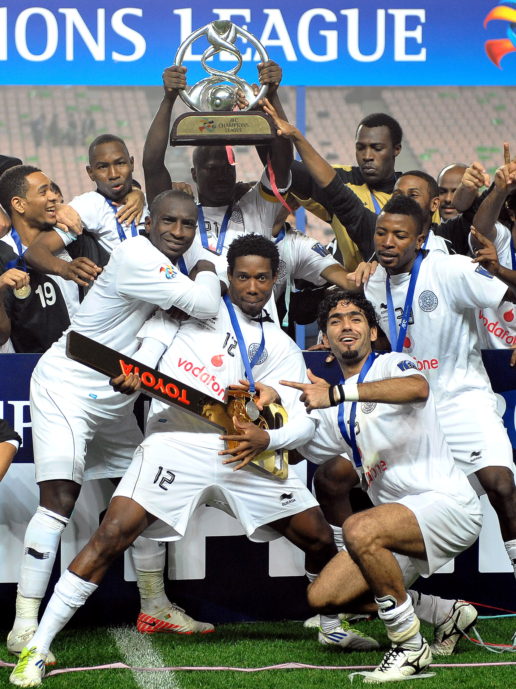 Members of the Al Sadd team celebrates after winning the AFC Champions League trophy. Pic by Doha Stadium Plus